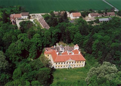 Nikitsch palace, Austria, aerialphotography